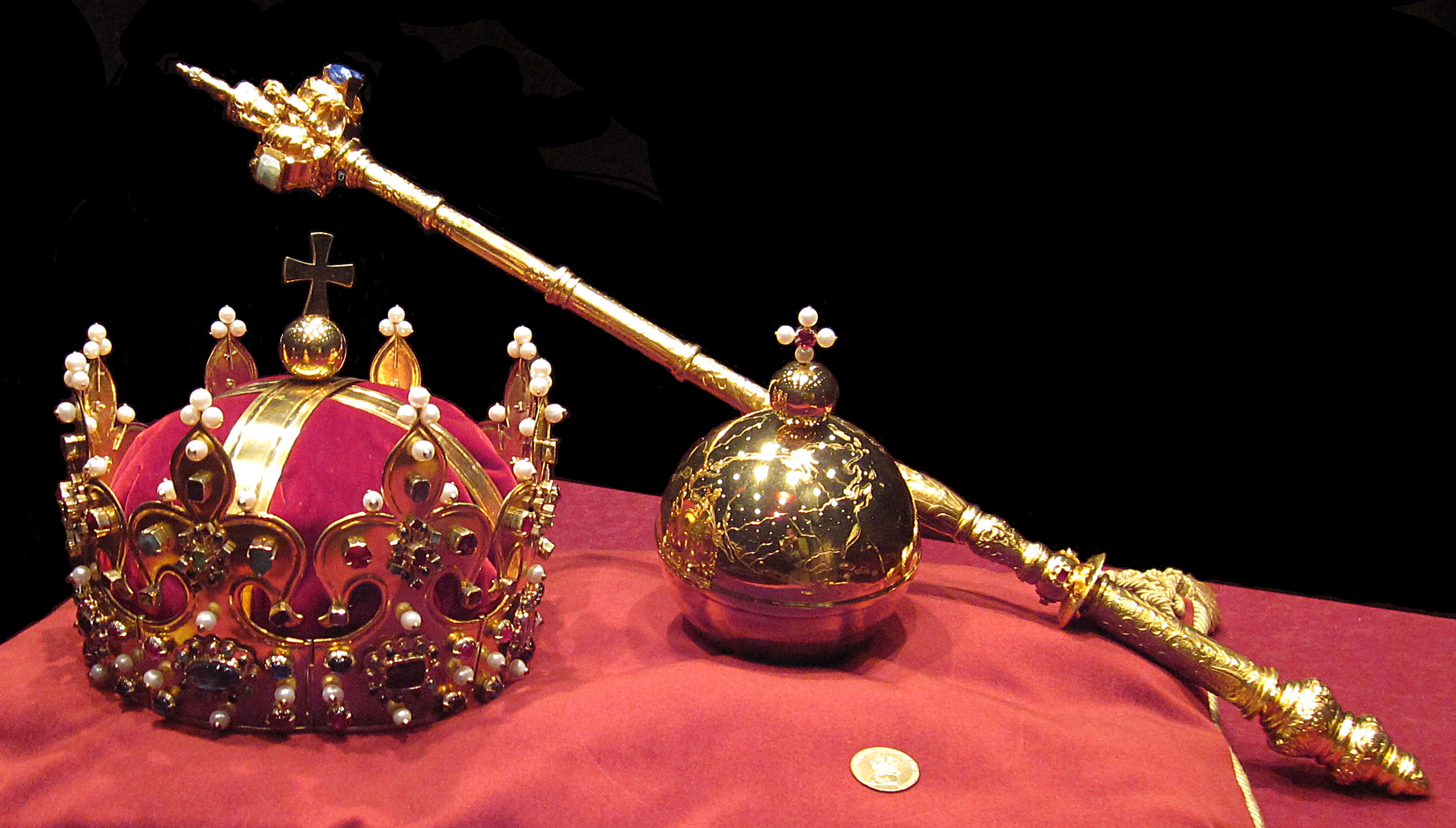 Polish crown jewels, consisting of the crown of Bolesław I the Brave, and the orb and sceptre used by Stanislaus II August of Poland. Copies were made in 2001-2003.